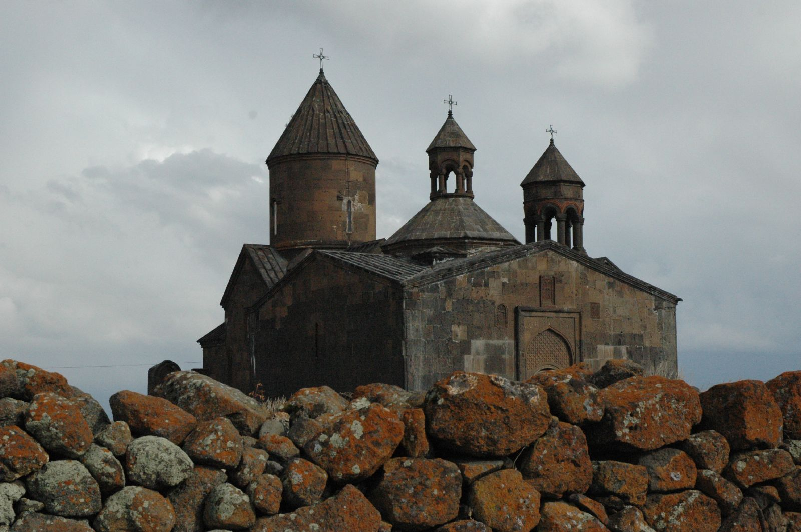 Saghmosavank Monastery, Armenia